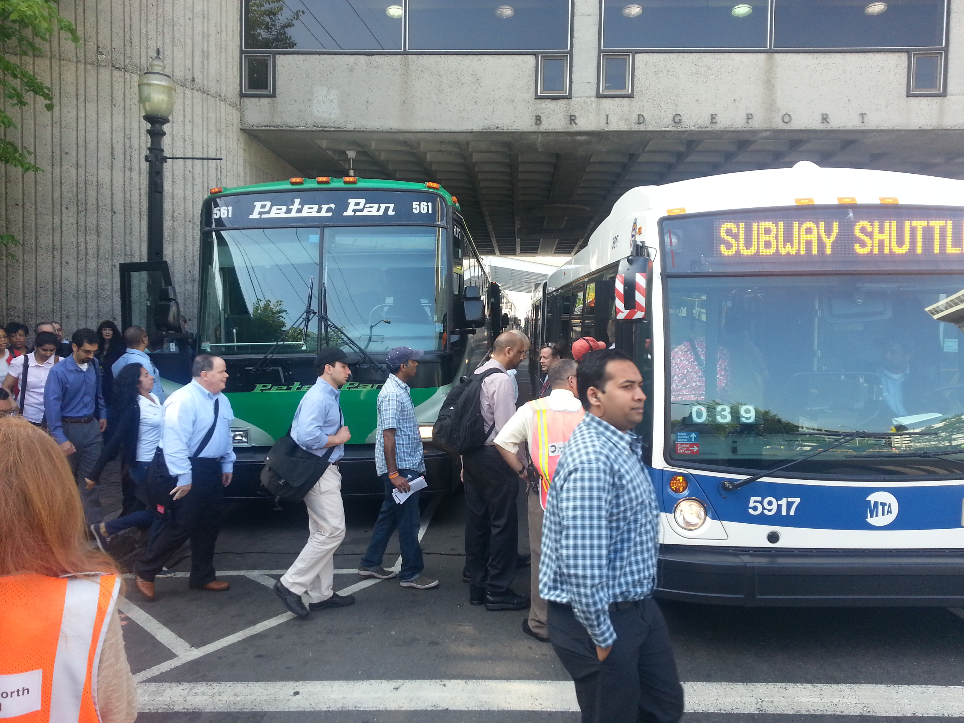 Metro-North Railroad and the Connecticut Department of Transportation arranged for 120 buses to provide transportation to train riders on May 20-21, 2013, while service remained suspended through Bridgeport and Fairfield, Connecticut. Customers boarded buses at Bridgeport Transportation Center on Tuesday, May 21. Photo: MTA Bus Compoany / John Miskulin